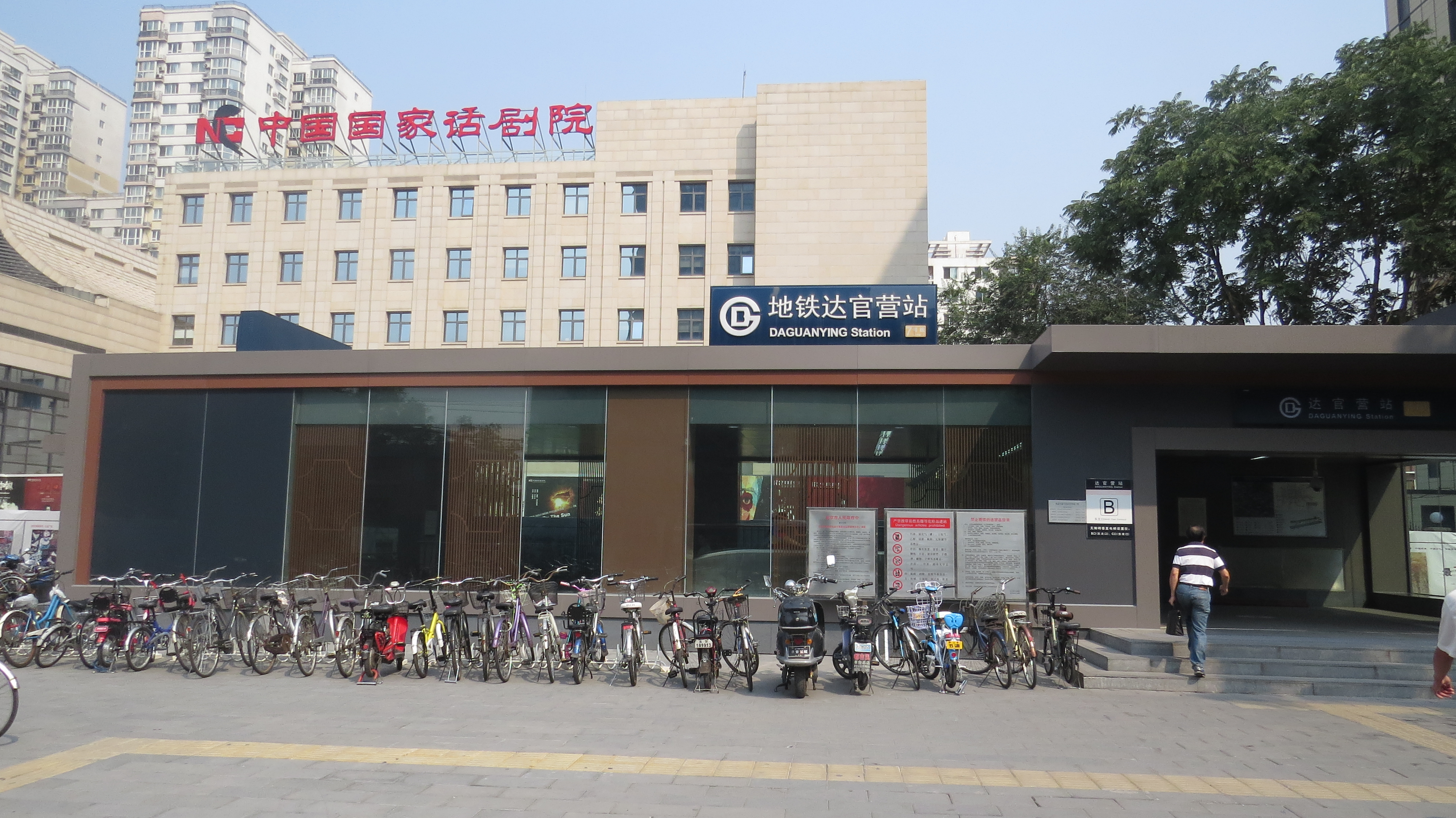 With National Theatre Company of China on the back.